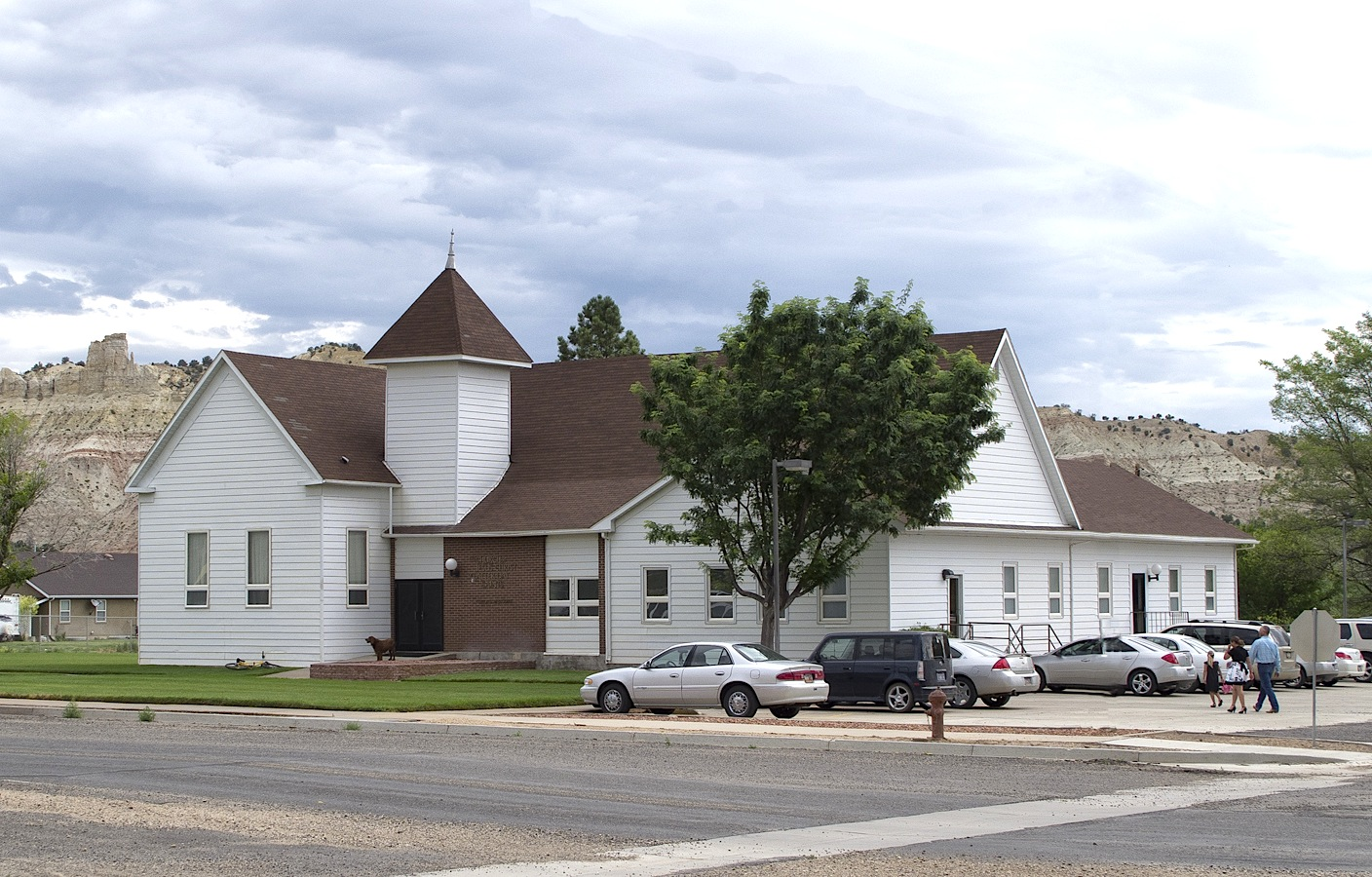 A family arrives for Sunday morning services at a meetinghouse of The Church of Jesus Christ of Latter-day Saints, in Cannonville, Utah.